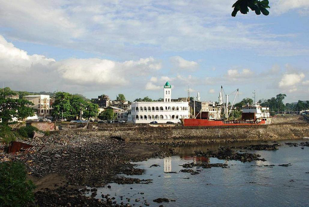 Moroni, Capital of the Comoros, here with Harbor Bay & Central Mosque